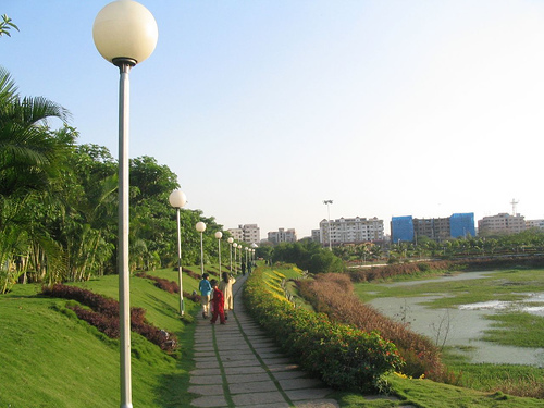 This image shows KBR National park at Jubilee hills.